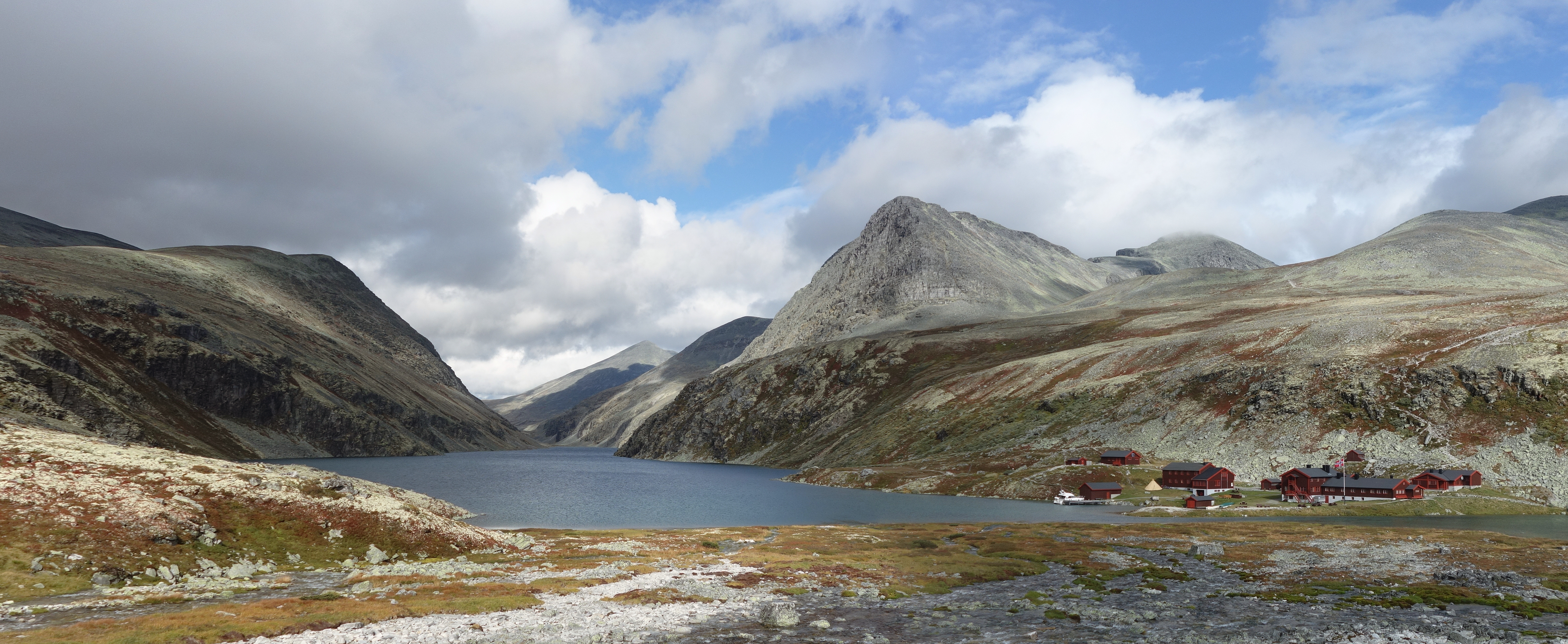 The lake Rondvatnet with mountain lodge Rondvassbu in Rondane national park, Norway.